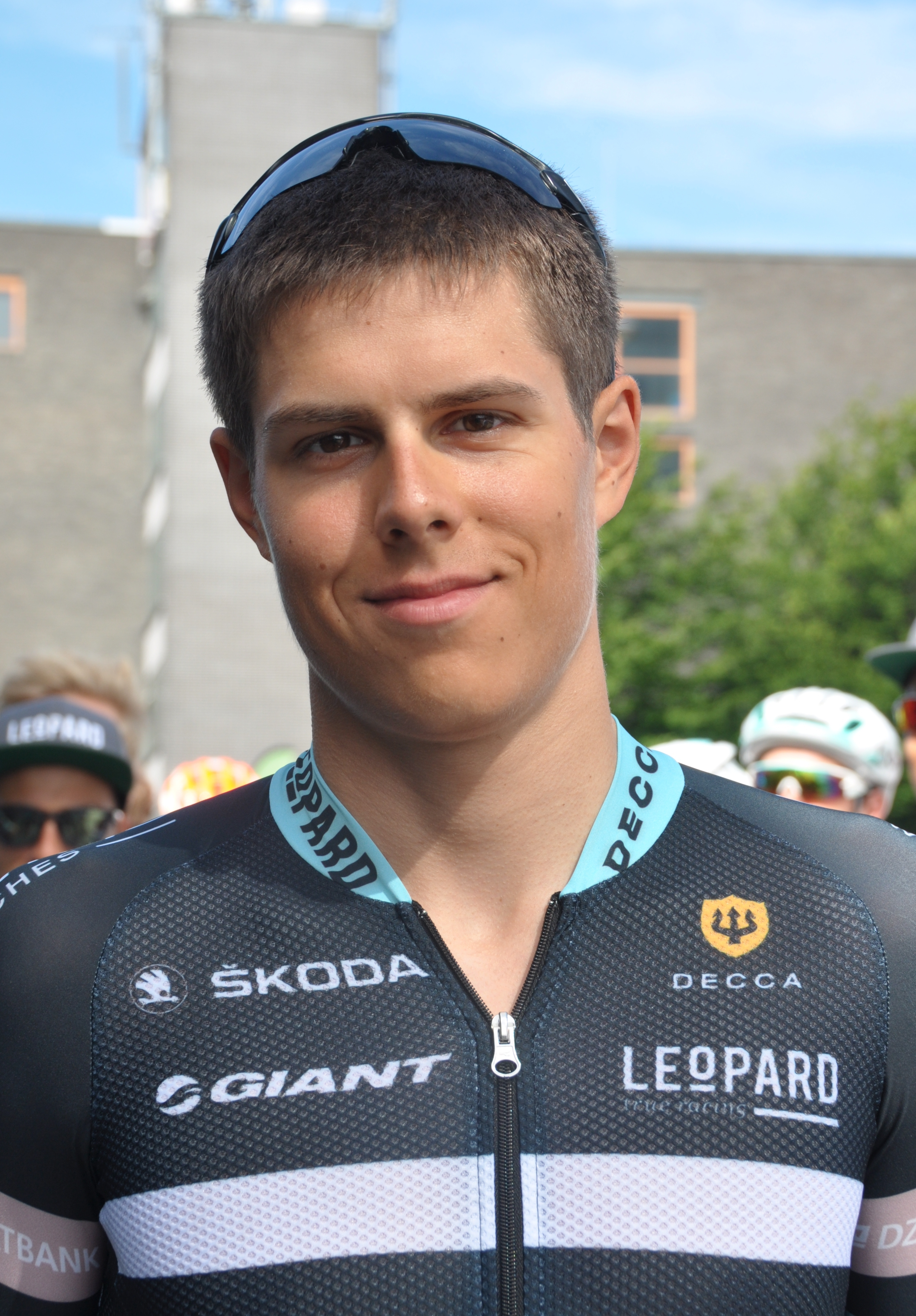 Depicted person: Aksel Nõmmela – cyclist